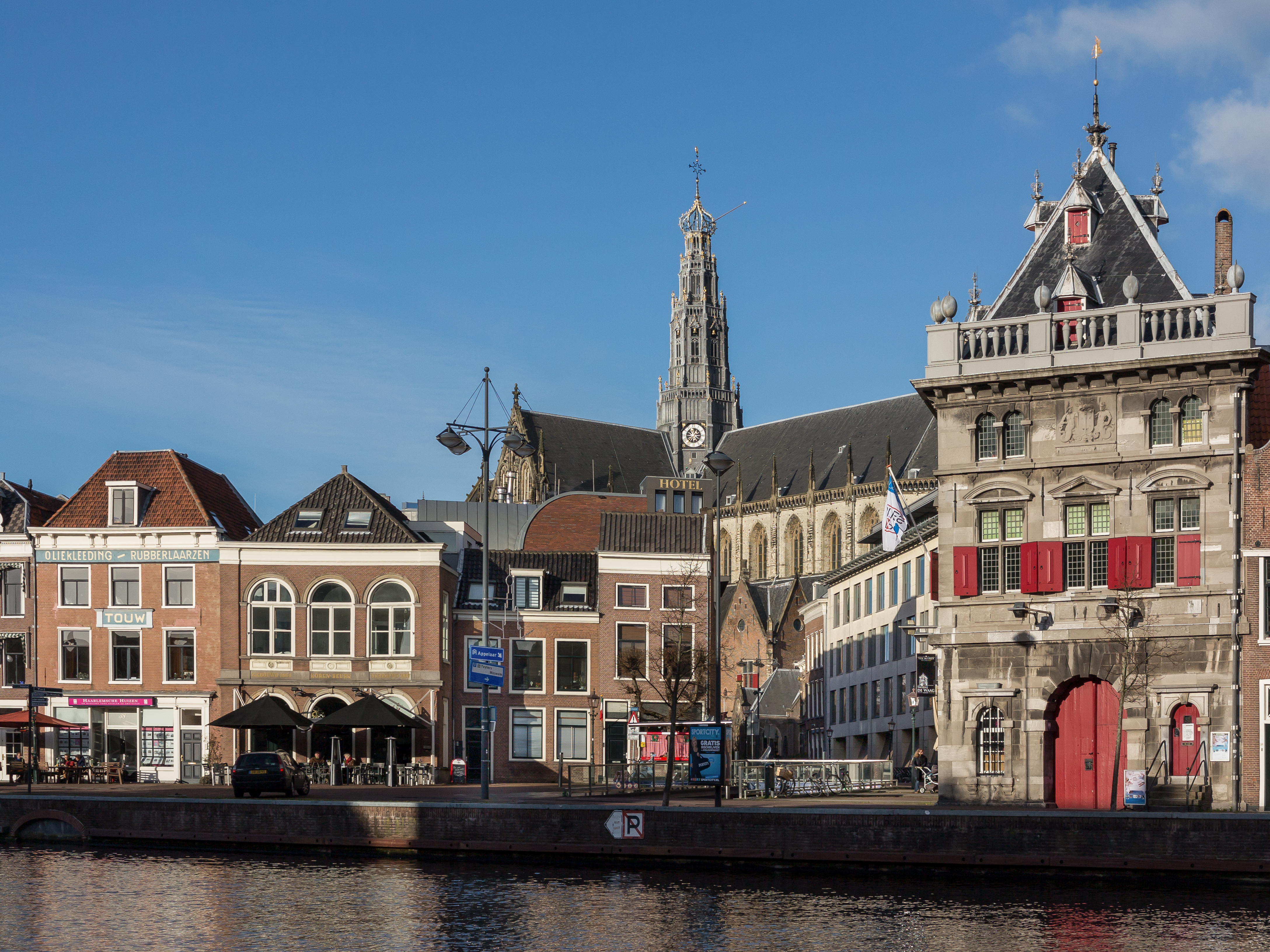 Haarlem, weigh house (de Waag) and church (de Sint Bavokerk)